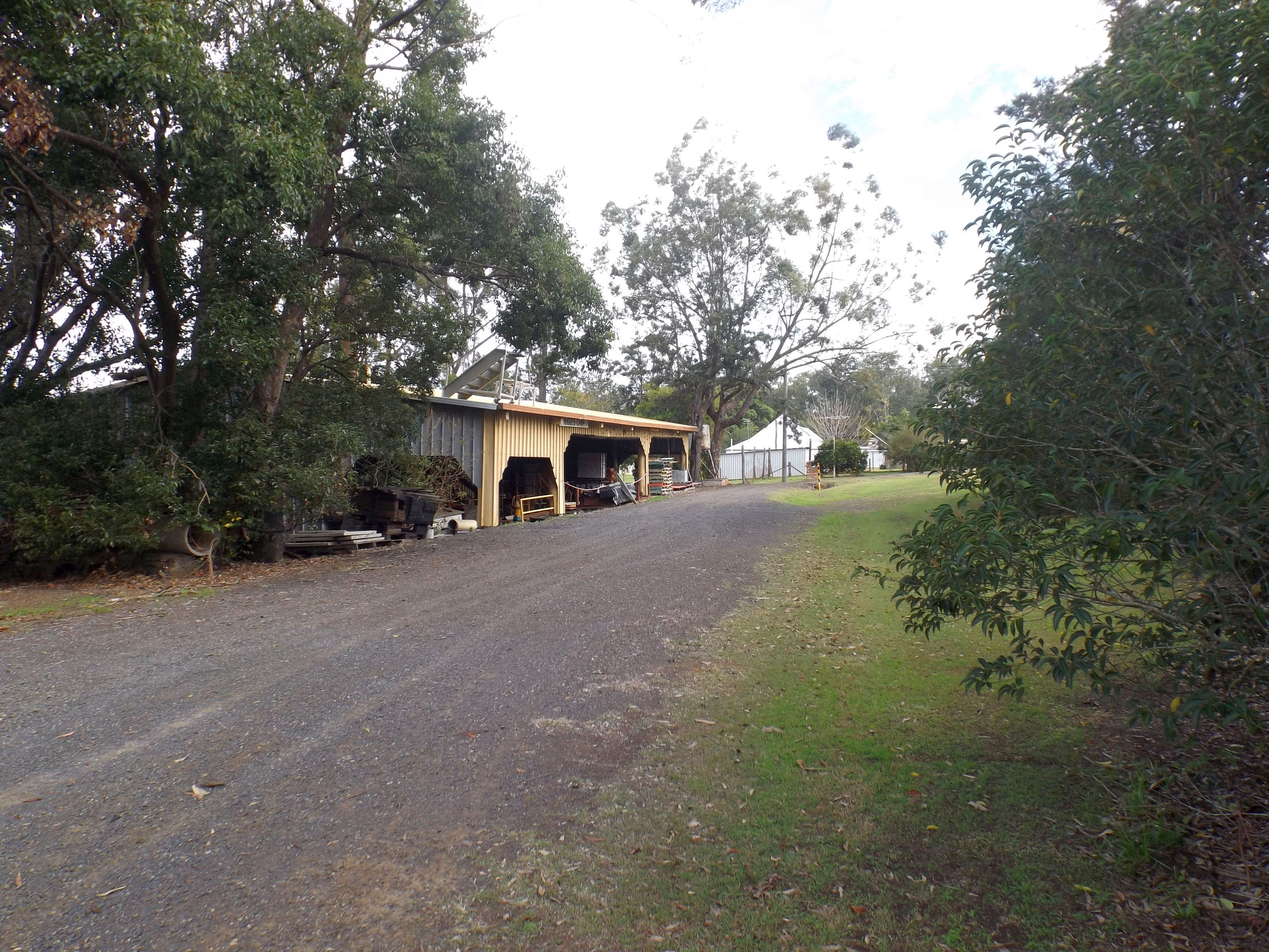 Photo of Grandchester Sawmill shed at Grandchester, Ipswich, Queensland, Australia.